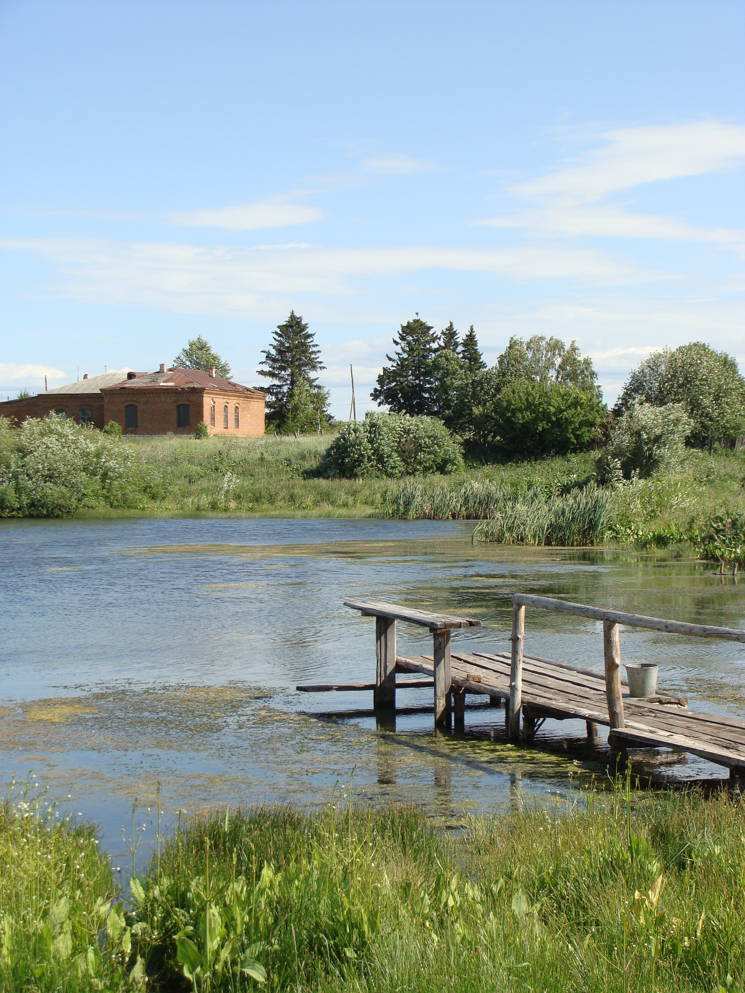 Old scool building in Krasnopolyanskoye